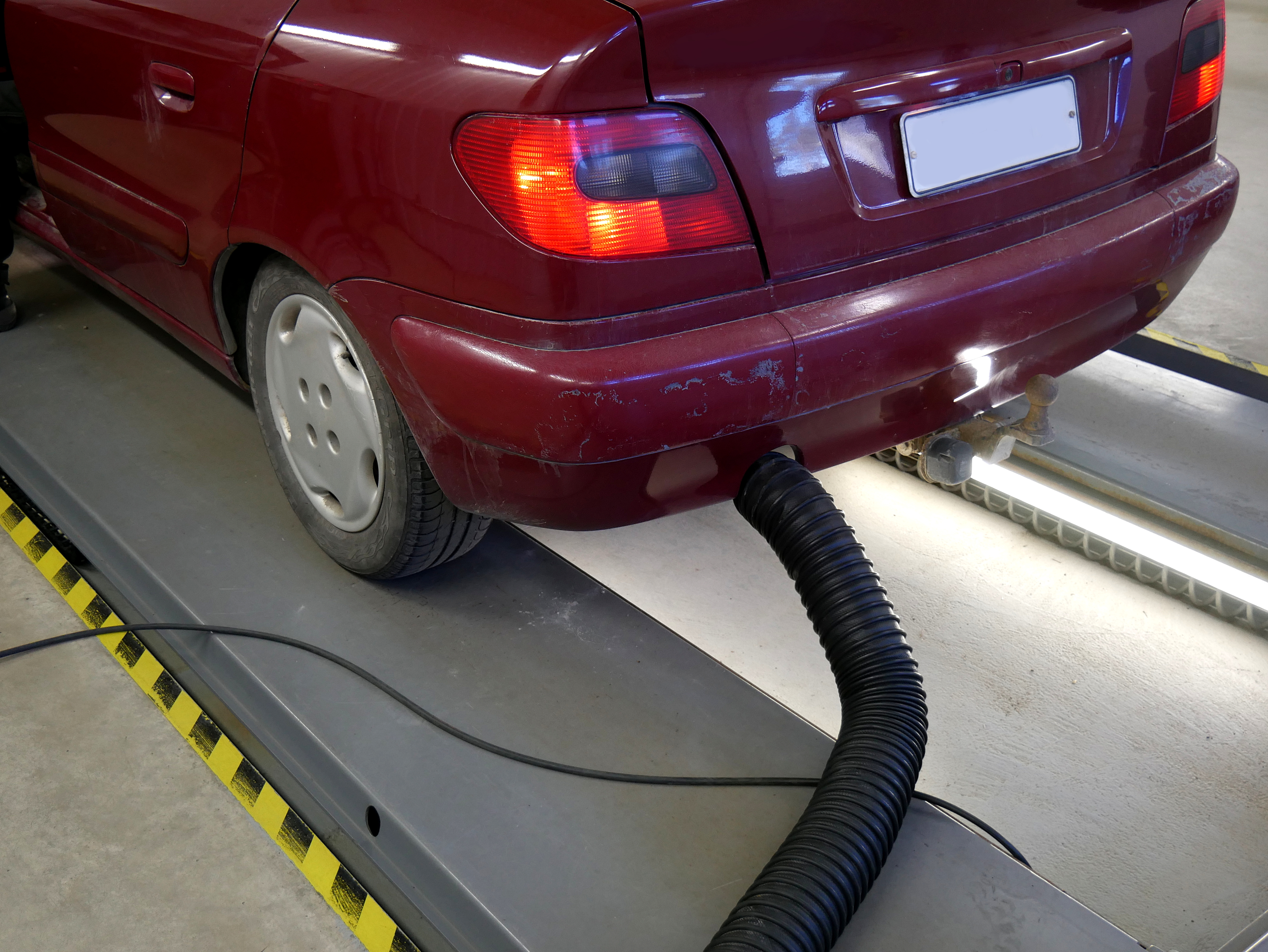 Exhaust gas measurement.